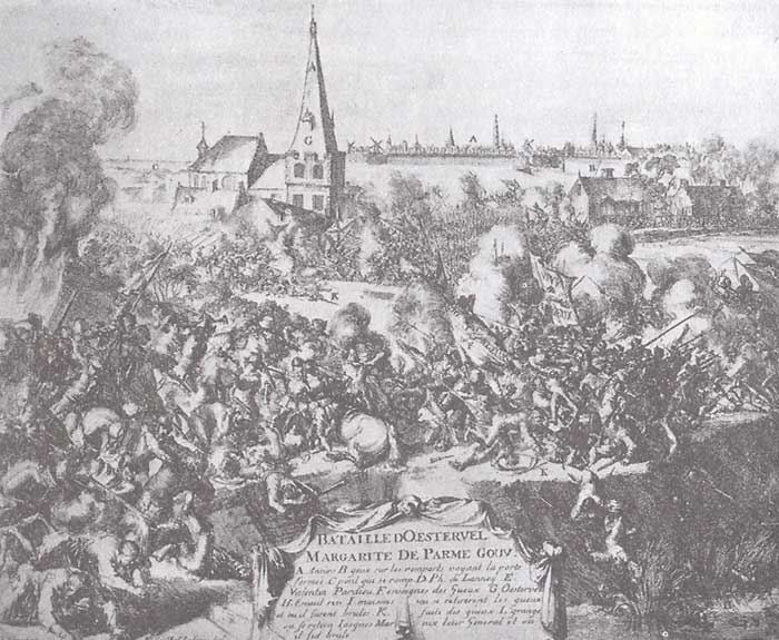 Battle of Oosterweel (March 13 1567), engraving by Romeyn de Hooghe,The rebel army of Hendrik van Brederode under the command of Jan van Marnix is crushed by a Spanish professional army under General Beauvoir. In the background William of Oranje stopping civilians from the city of Antwerp to come to the aid of the rebels.